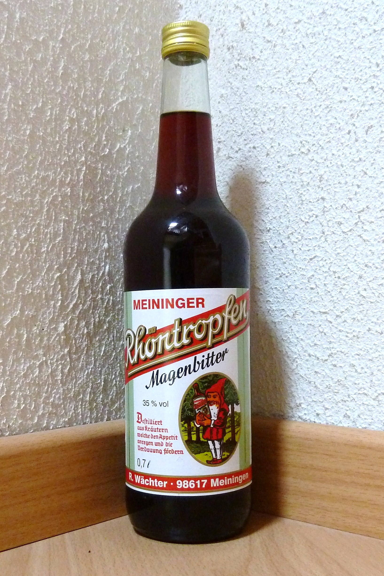 Liqueur "Rhöntropfen" from Meiningen, Germany